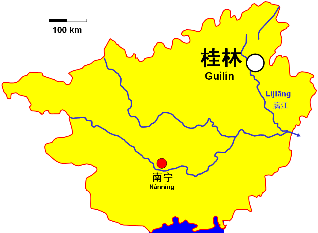 Location map of Guilin on the the Lijiang River — in the Guangxi Autonomous Region, Southeastern China.